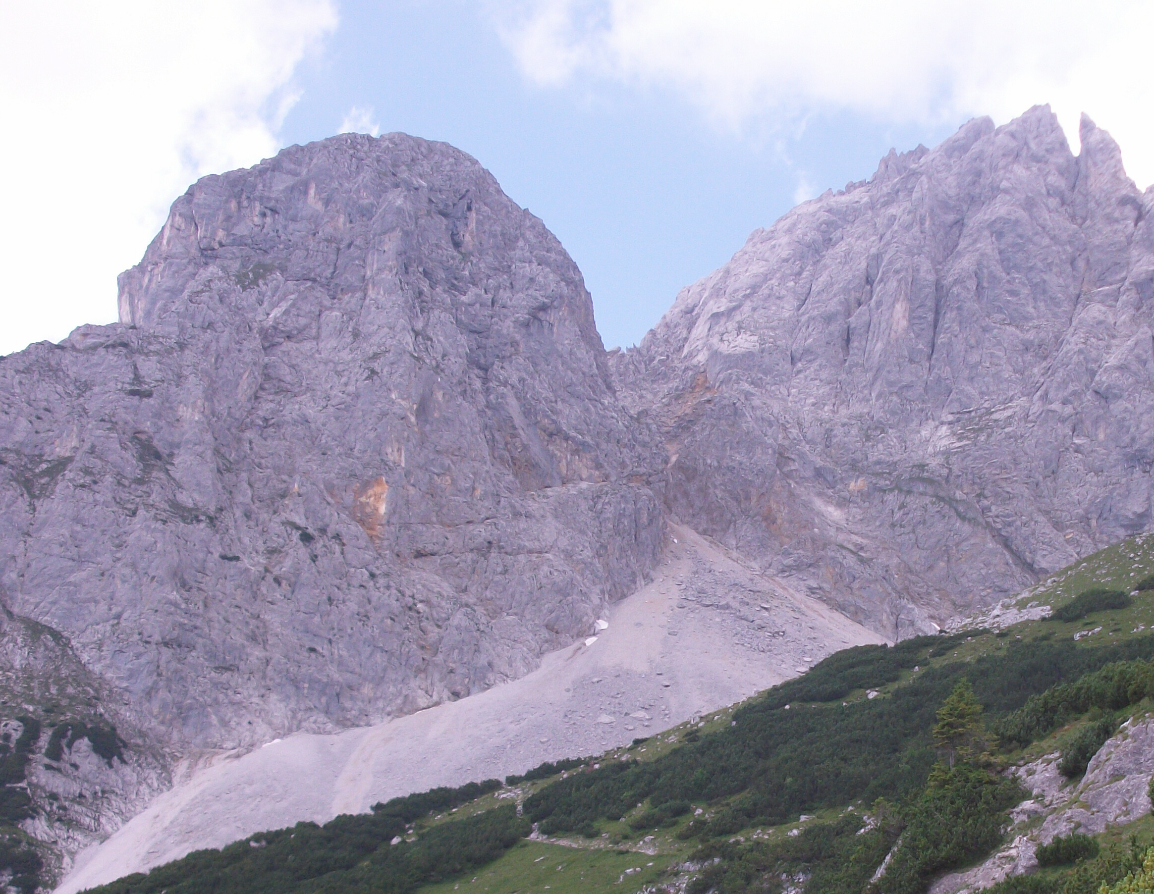 Eastwall of Kaiserkopf and Ellmauer Halt